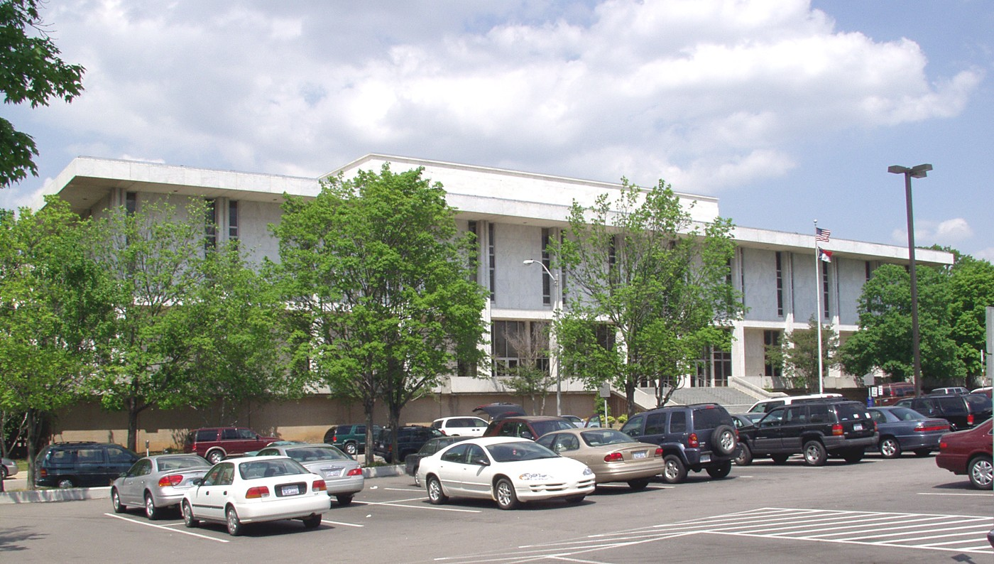 Exterior overall view, color, of the State Archives Building, 109 East Jones Street, c.2006; photo by Alan Westmoreland. From the State Archives of North Carolina, Raleigh, NC.